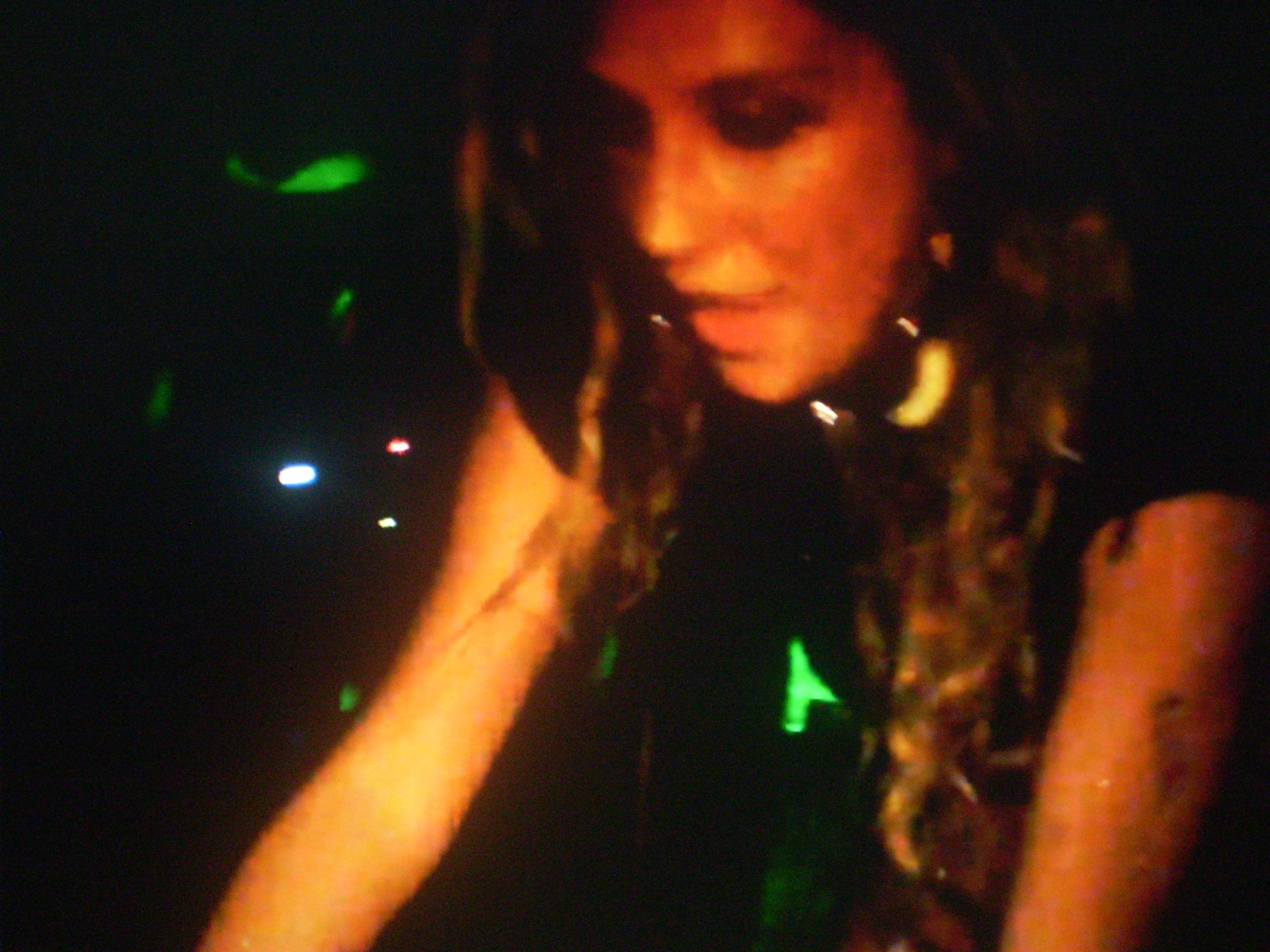 Ke$ha performing live in Echo.